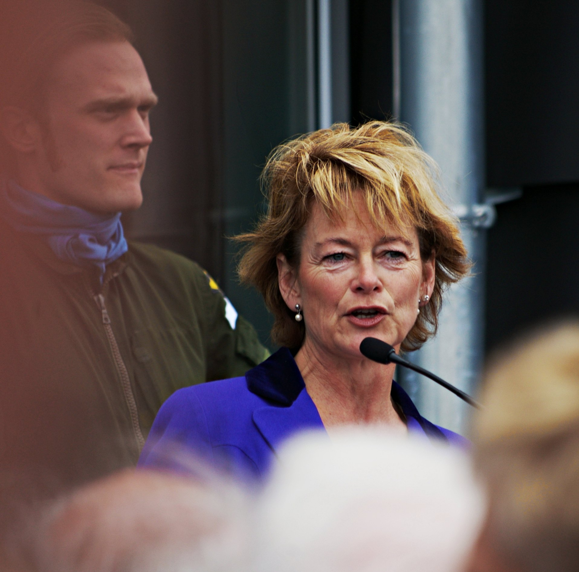 Lena Adelsohn Liljeroth